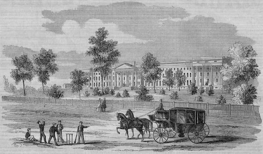 View of the Lunatic Asylum, Columbus, Ohio, a wood engraving published November 1857 in Ballou's Pictorial Drawing-Room Companion, Boston, Massachusetts. Designed by Nathan Kelley, it opened in 1838, but was almost completely destroyed by fire in 1868.